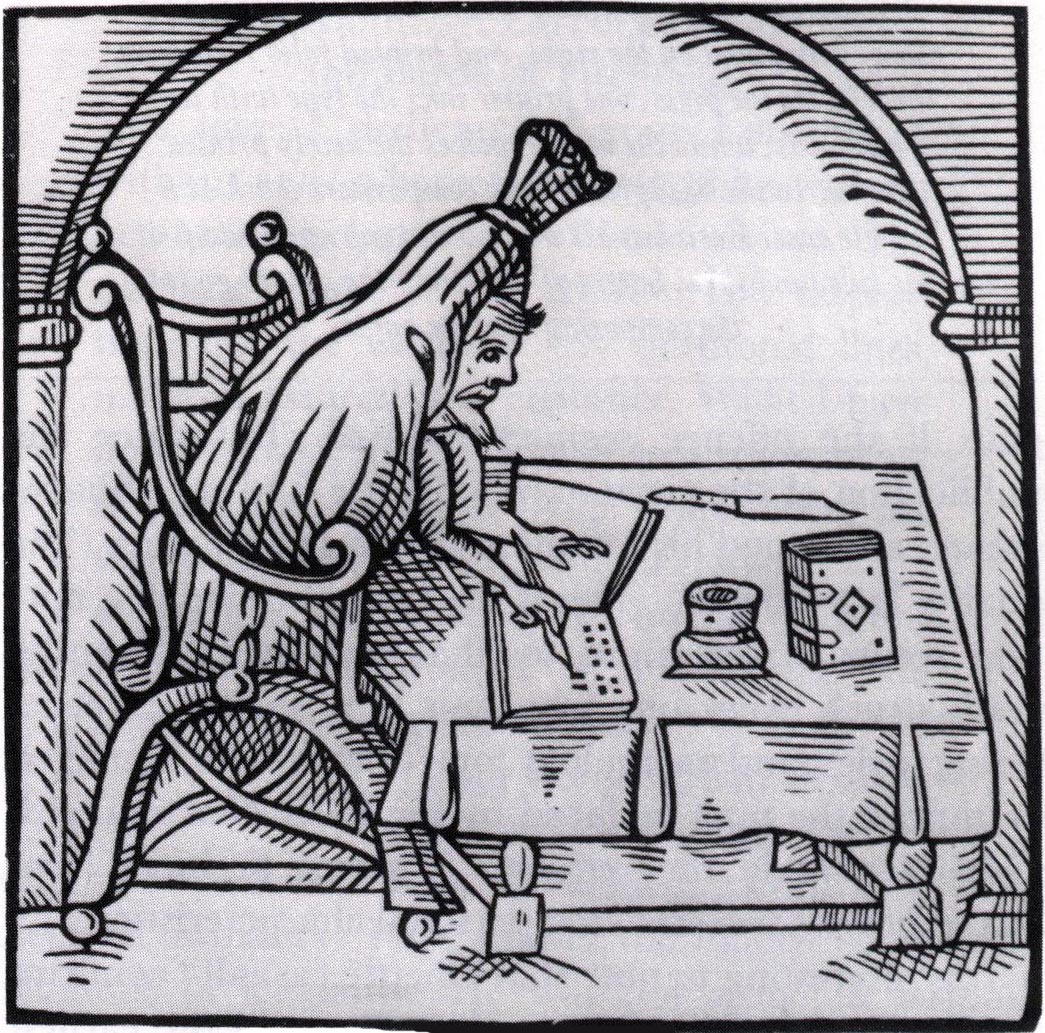 Woodcut showing Robert Greene. The image is of the dead Greene, and comes from a pamphlet published in 1598, Greene in Conceipt, by John Dickenson. It shows the late author in his shroud.